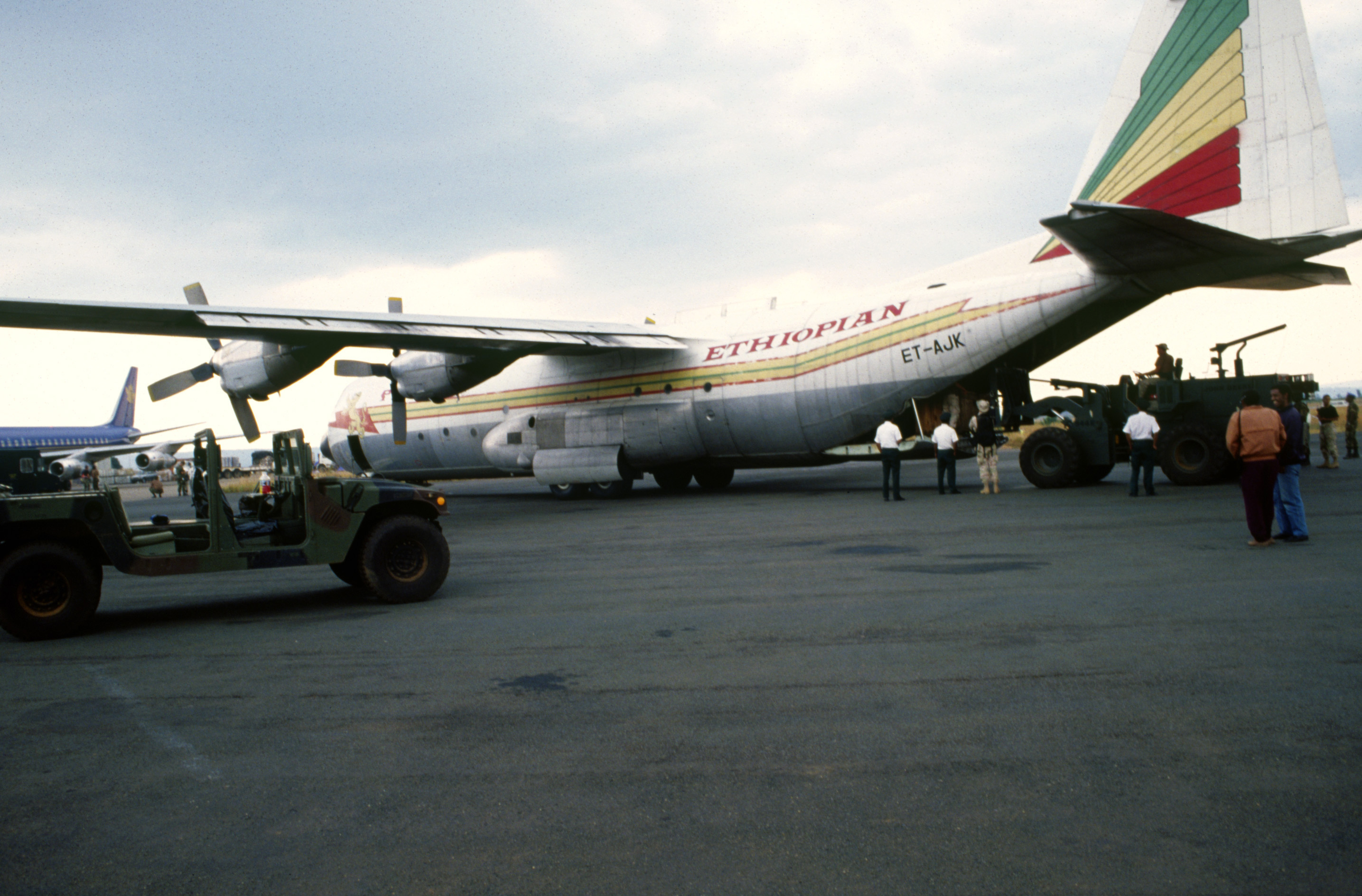 A forklift is used to offload an Ethiopian airliner at Kagali airport. It is bringing in supplies to support the international relief effort for the Rwandan refugees.